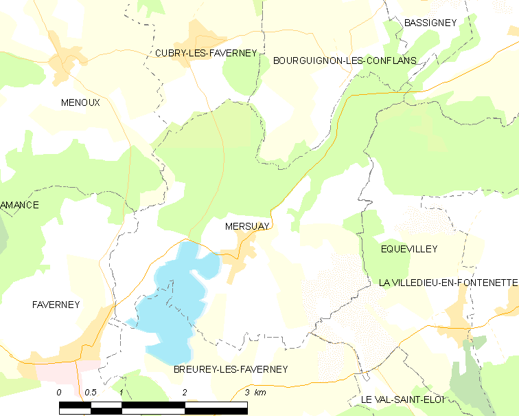 Map of French municipality